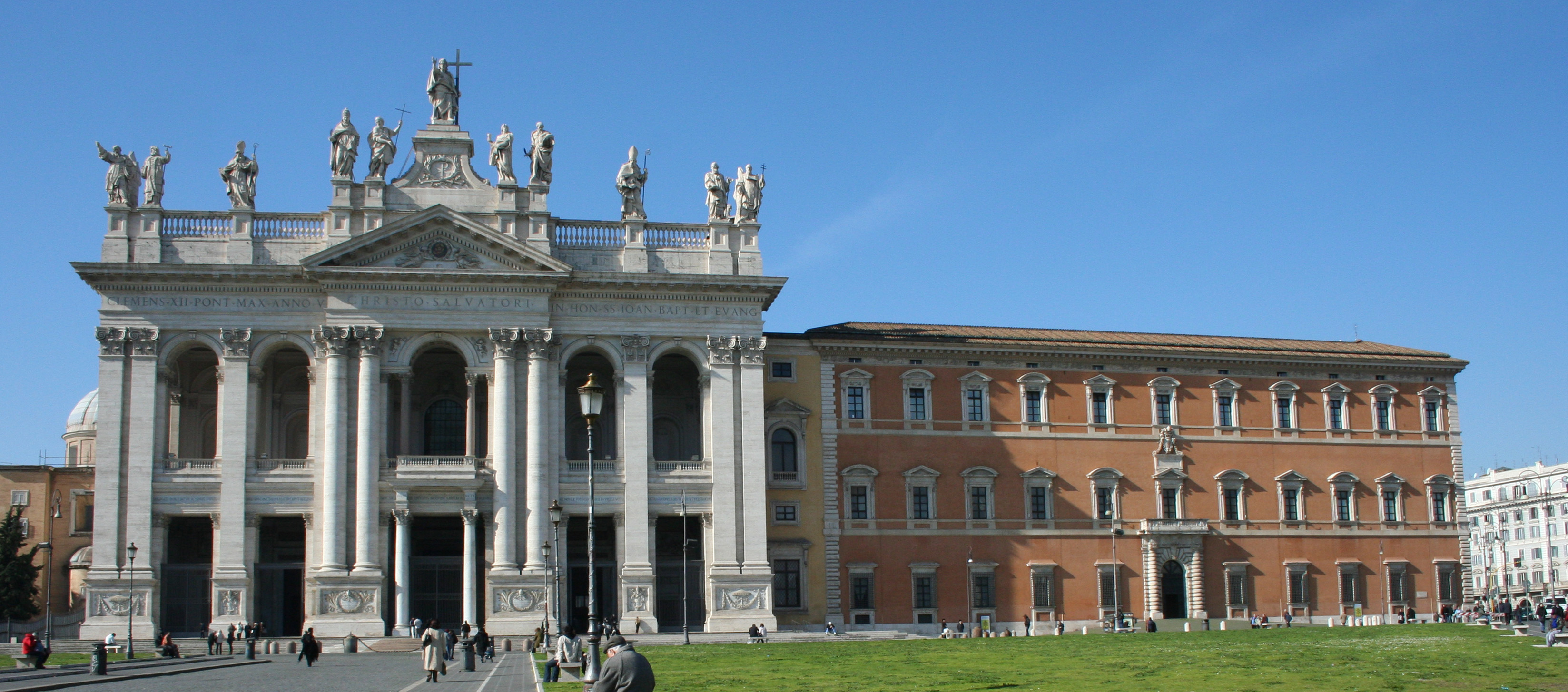 Basilica and Palace of St John Lateran, Rome, Italy